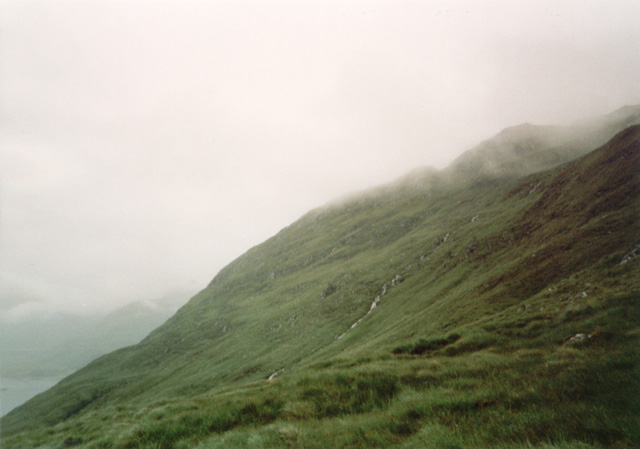 Allt Camus nan Eun. Looking east to Allt Camus nan Eun from Cnoc na Coursain, North Morar. Loch Nevis can be seen in the bottom left corner of the photograph.